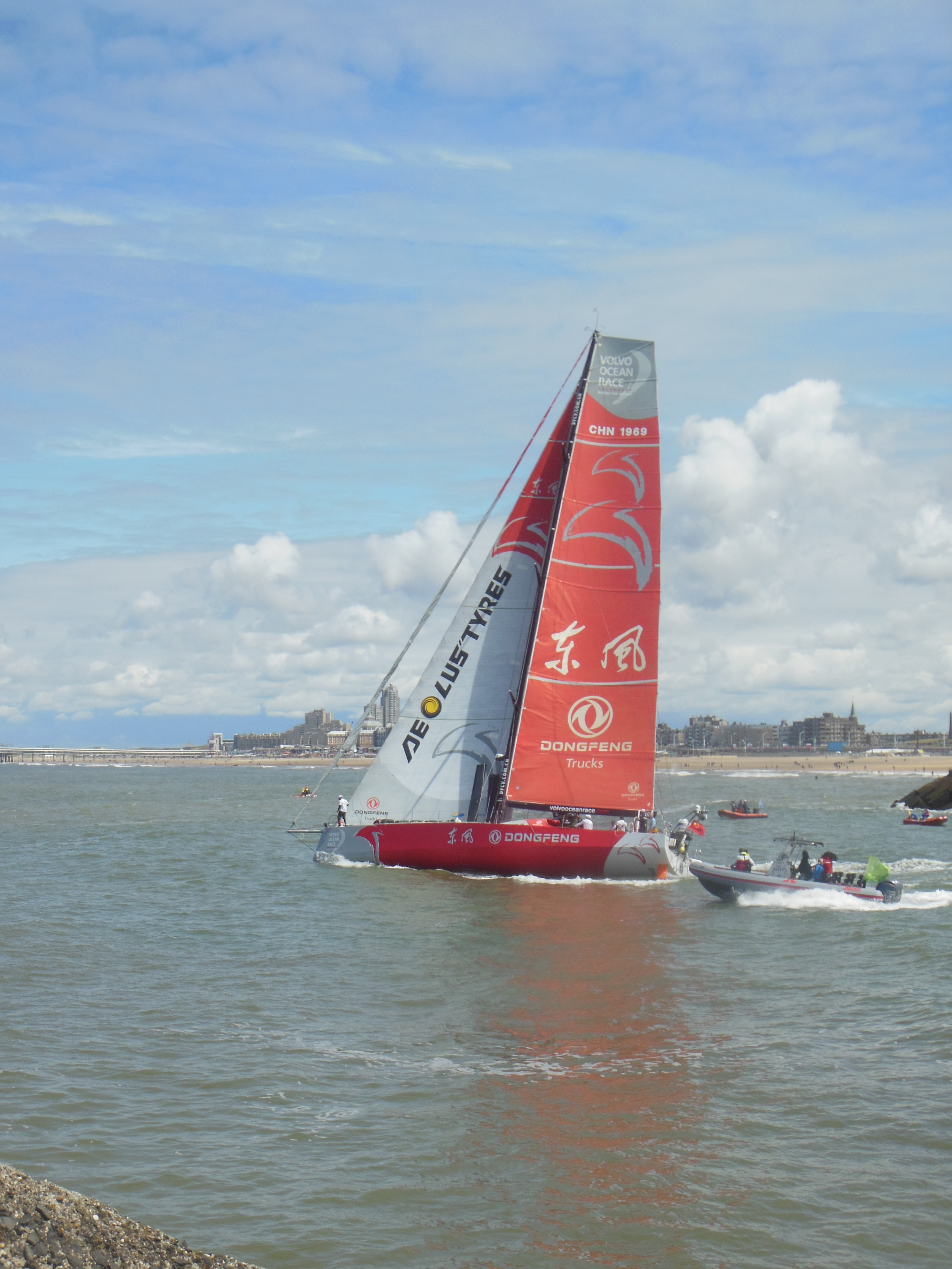 VO65 Dongfeng race team at the re-start after the pitstop in Scheveningen, Volvo Ocean Race 2014-15